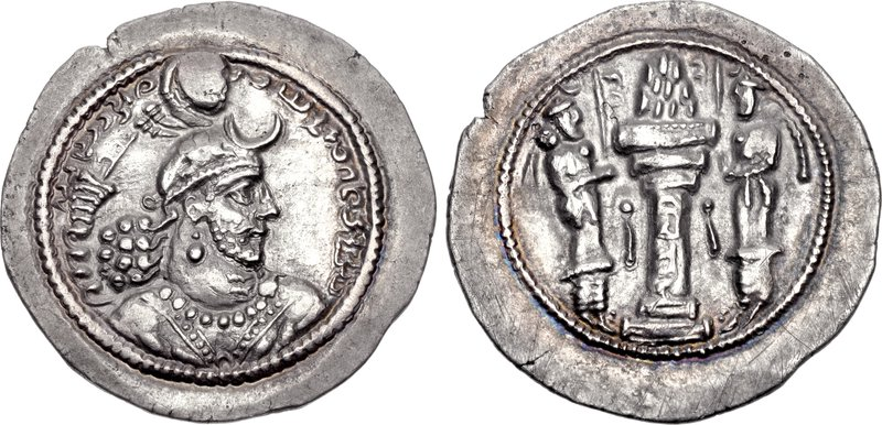 Coin of Yazdegerd I.